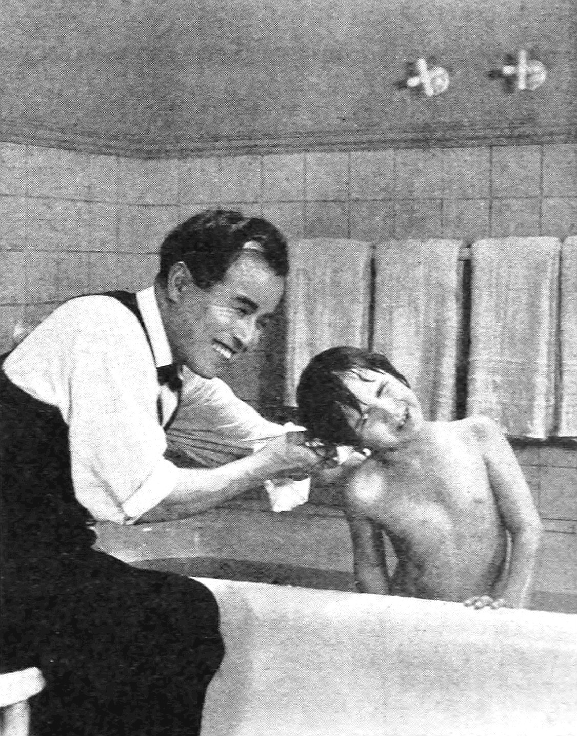 Scene from the 1923 American film Daddy with George Kuwa and Jackie Coogan.